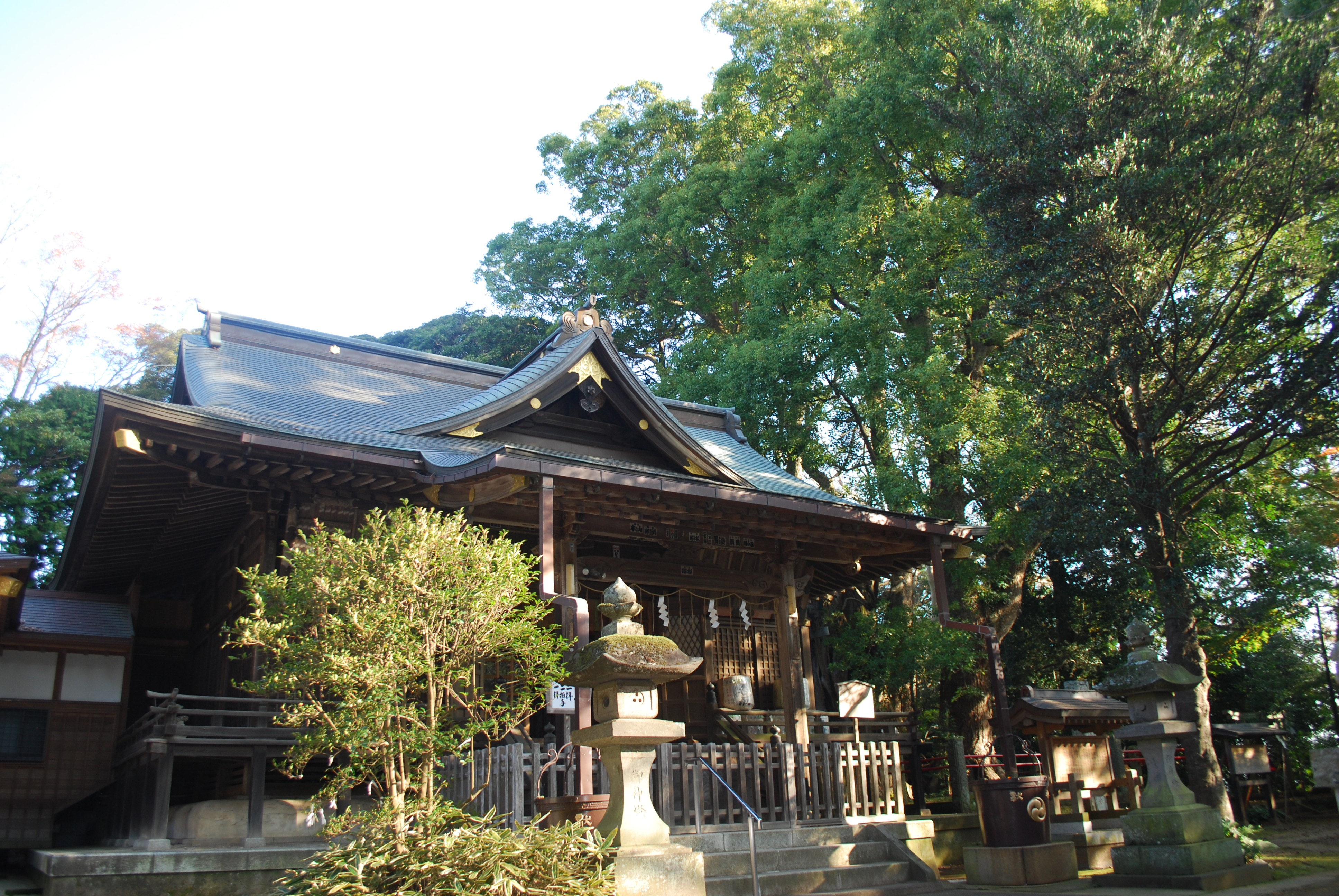 Kozaki-shrine and NanjyaMonjya-tree,Kozaki-town,Japan